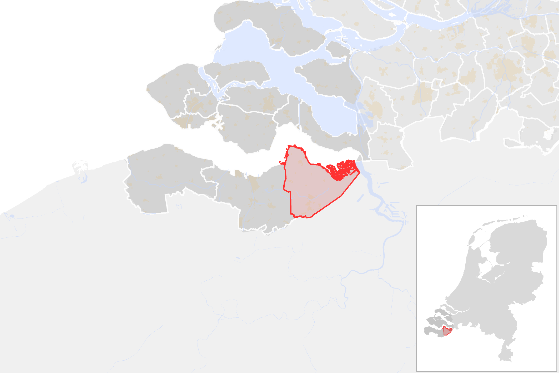 Locator map showing municipality boundary of one of the 390 Dutch municipalities (as of 2016)